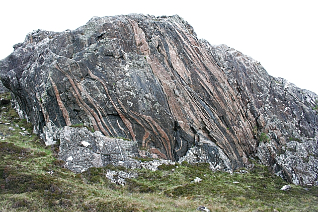 Gneiss Folds This striped rock is formed of sheets of pink granitoid rock intruded into dark amphibole-rich gneiss, and then all the layers have been folded and refolded into these tight upright folds. The sheets were emplaced about 2700 million years ago and folded and metamorphosed during the Inverian deformation event about 2500 million years ago.